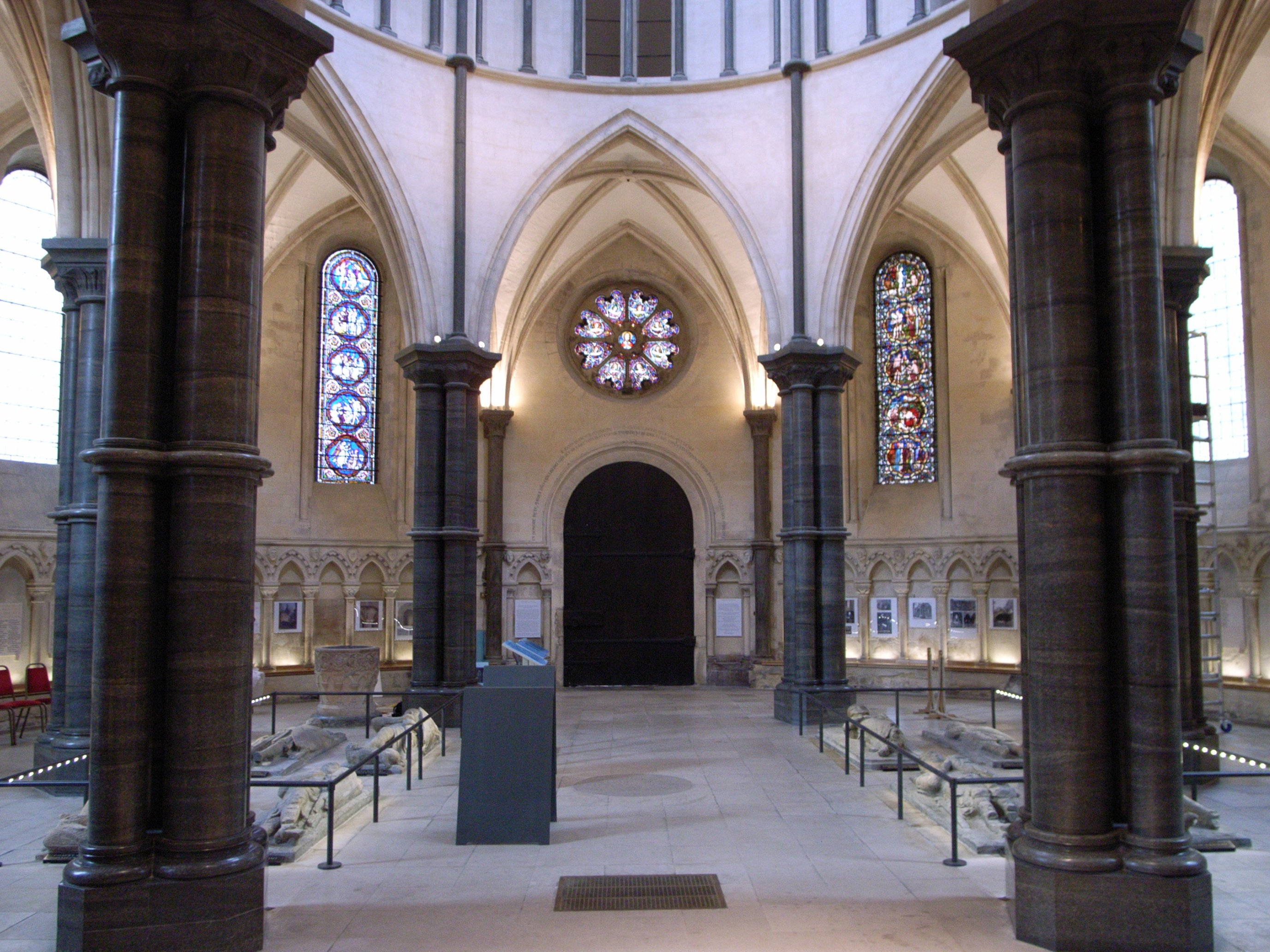 Temple Church (1160-1240), the City of London. View of the 12th Century circular nave, which has been extensively, but faithfully restored.